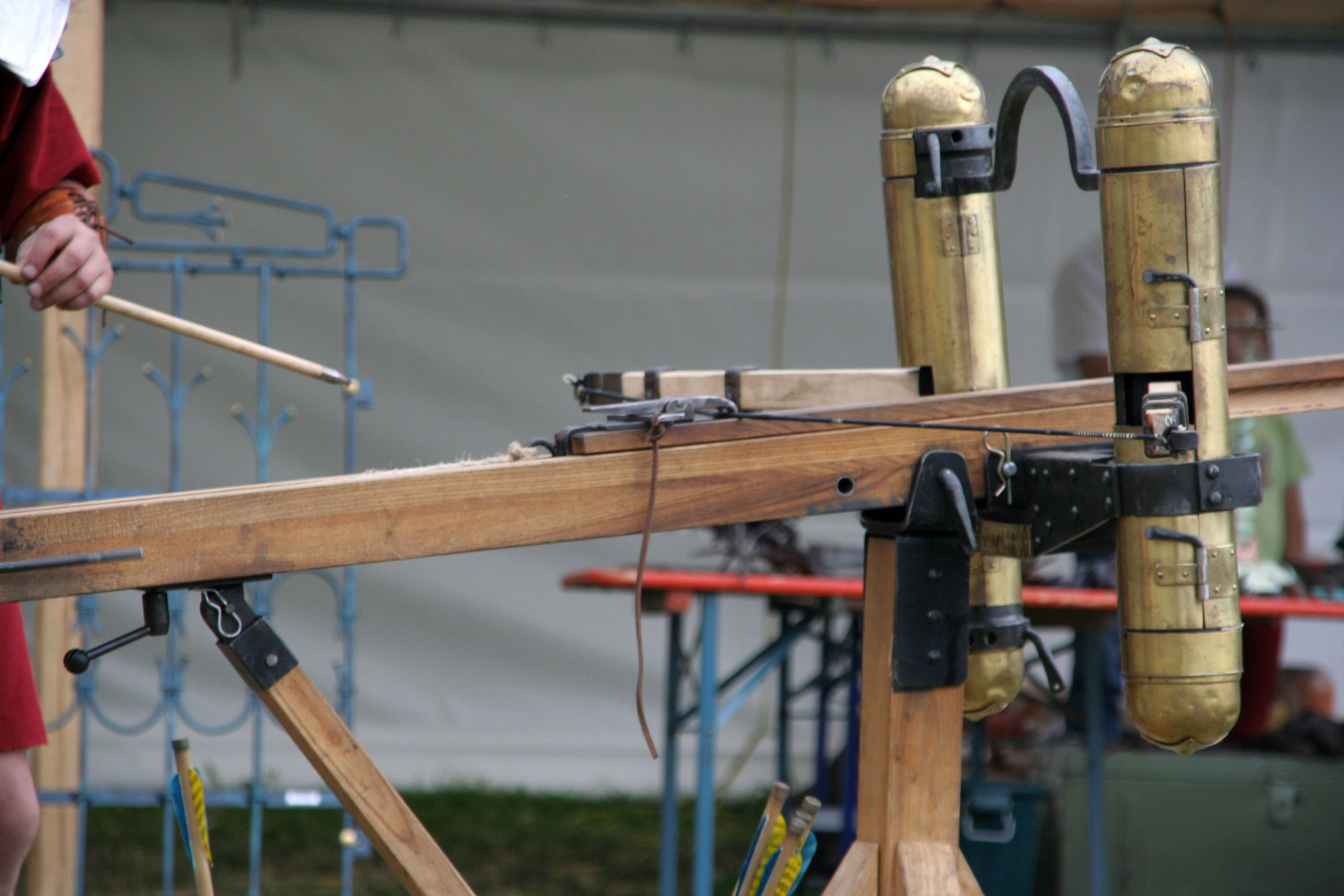 Balliste Photographed by myself during a show of Legio XV from Pram, Austria